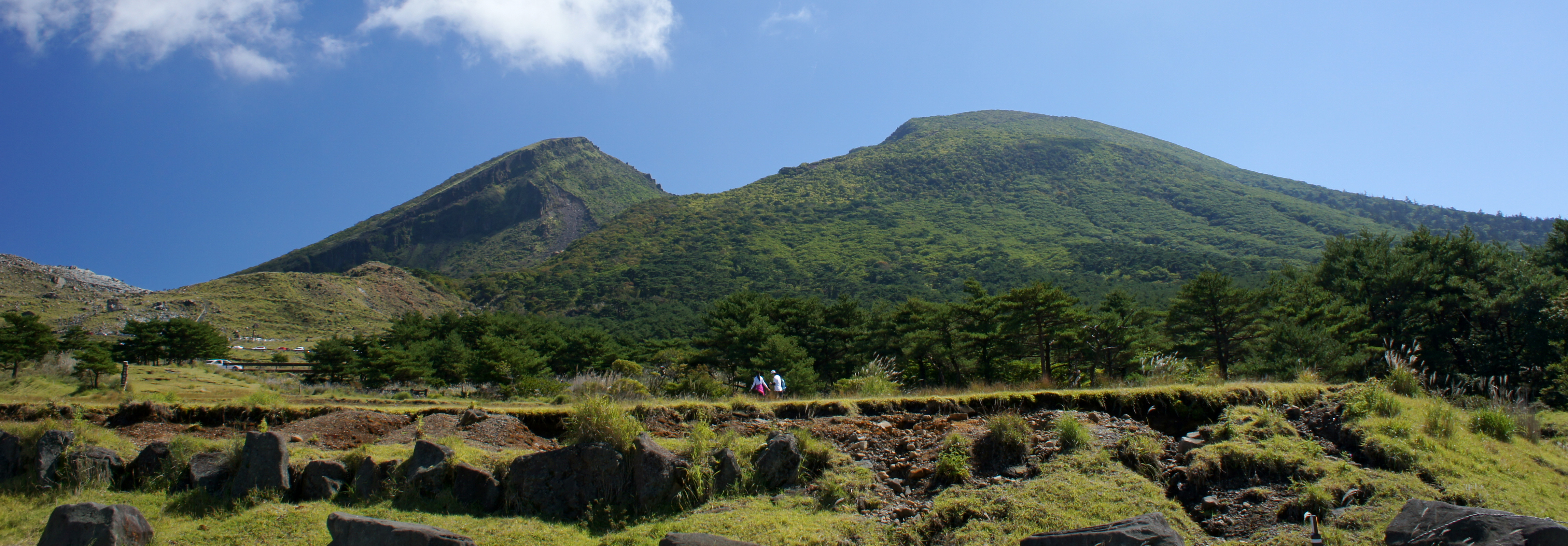 Ebin Plateau in Ebino, Miyazaki prefecture, Japan.